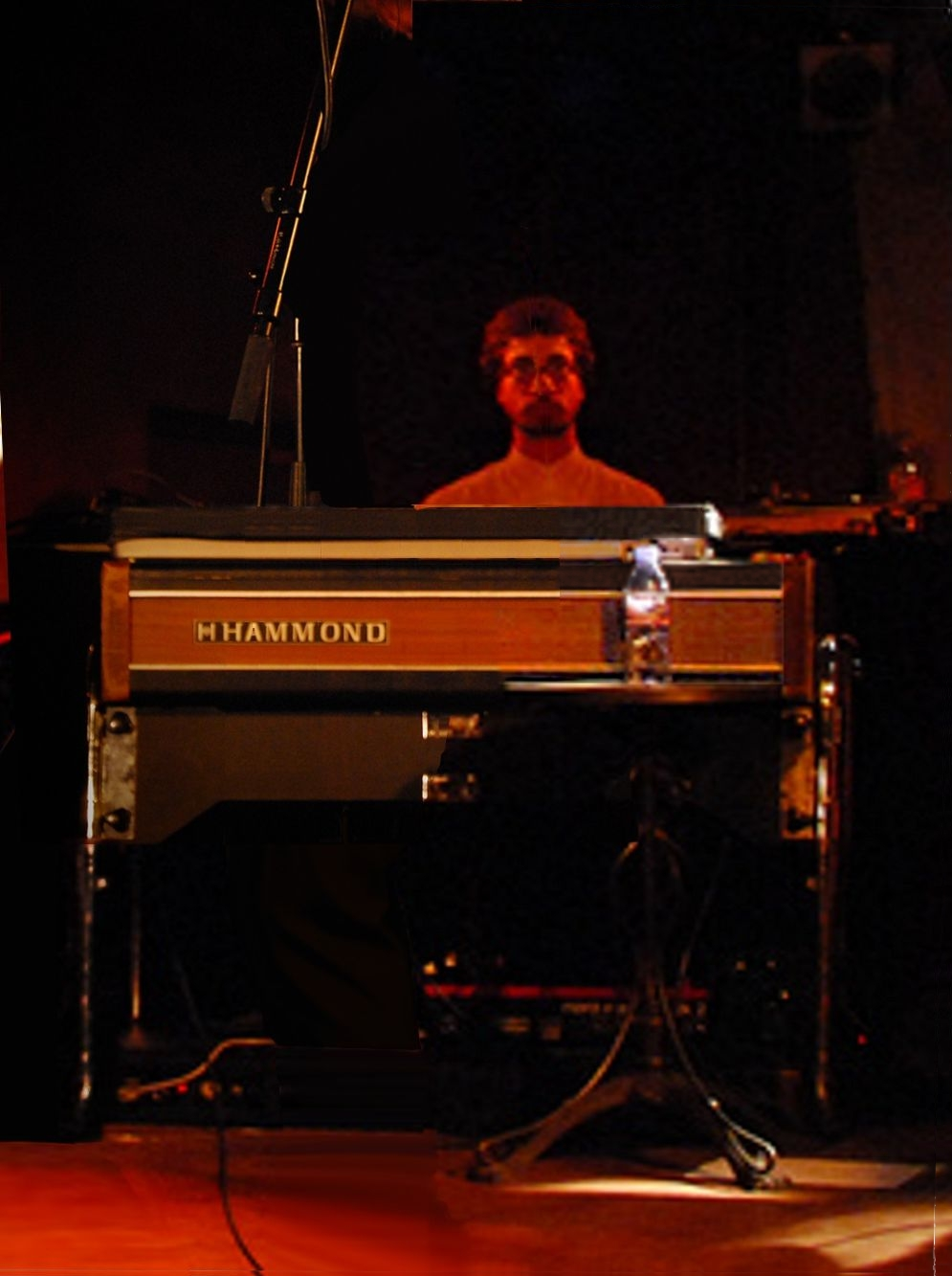 Hammond X-5 (rear ) Mr DAY @ La Bellevilloise, may 21 2010 , Awesome concert, more on